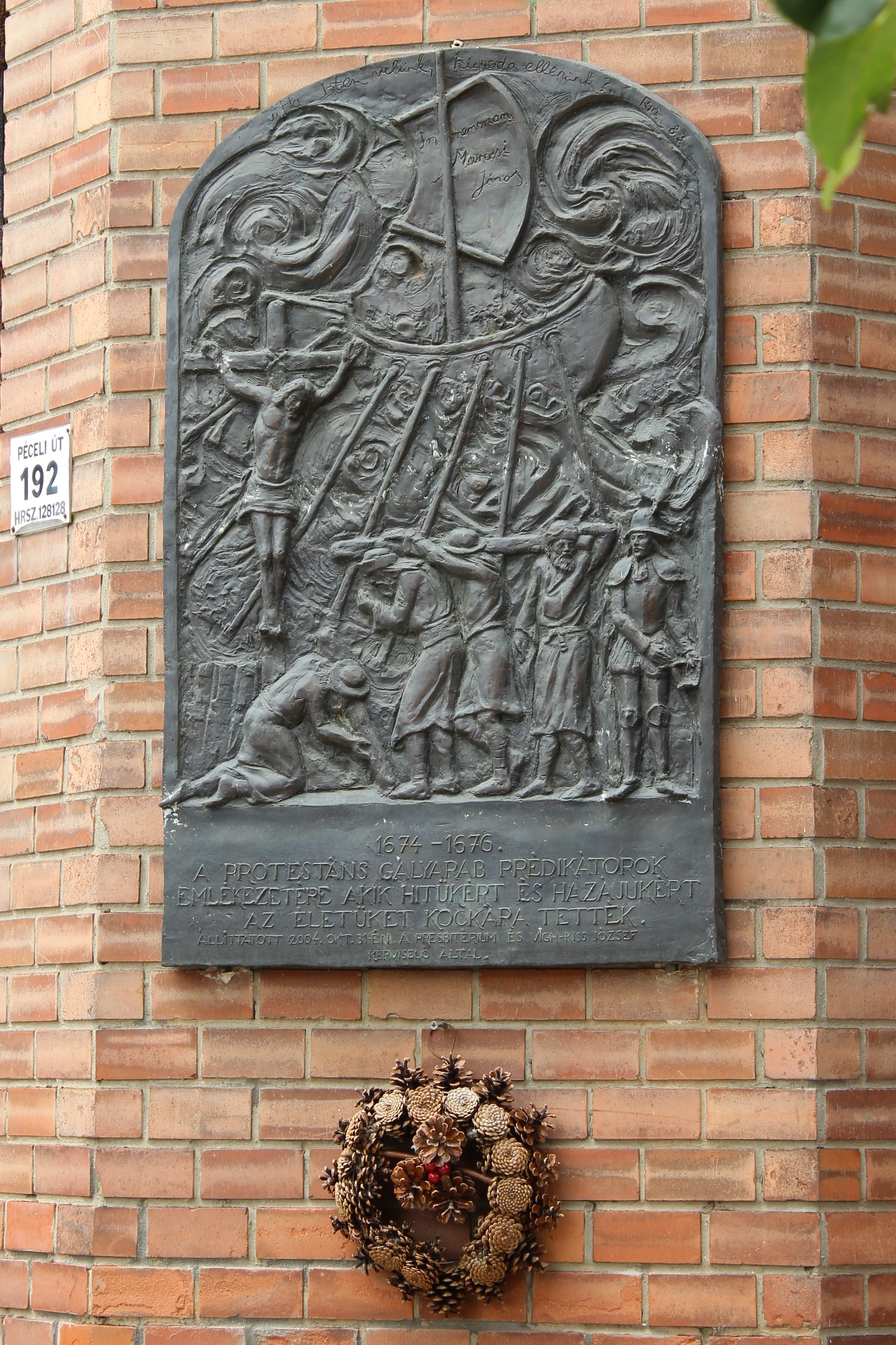 Plaque in the wall of Reformed church in Rákoscsaba